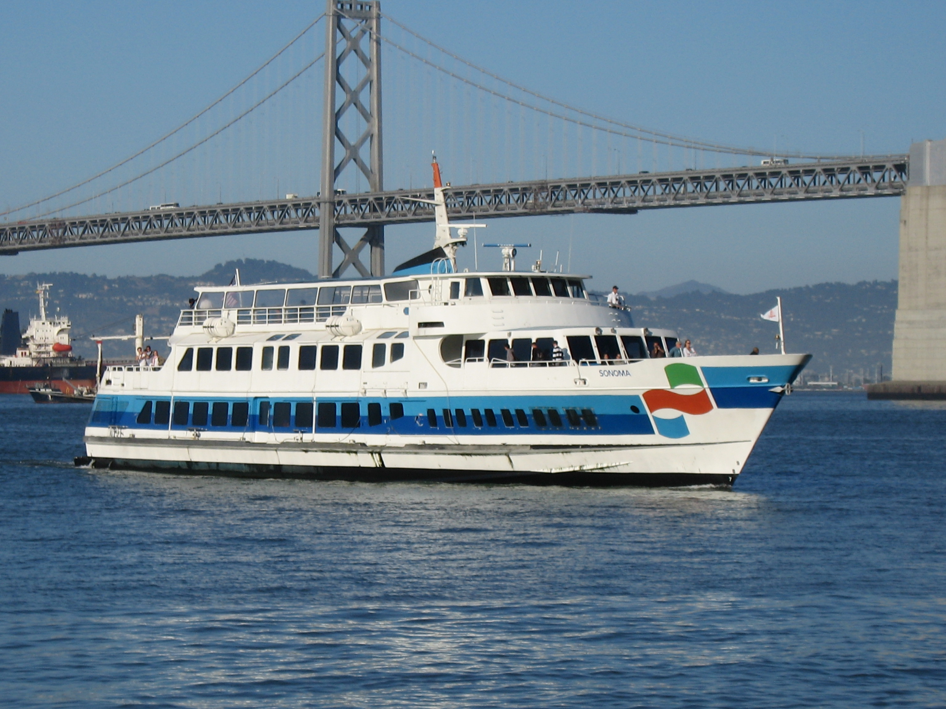 Golden Gate Ferry Sonoma, approaching the Ferry Building in San Francisco. Photograph made by Michael C. Berch User:MCB on 2007-06-14 and released under free license CC-BY-SA 2.5.